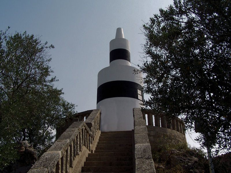 To see (PT)